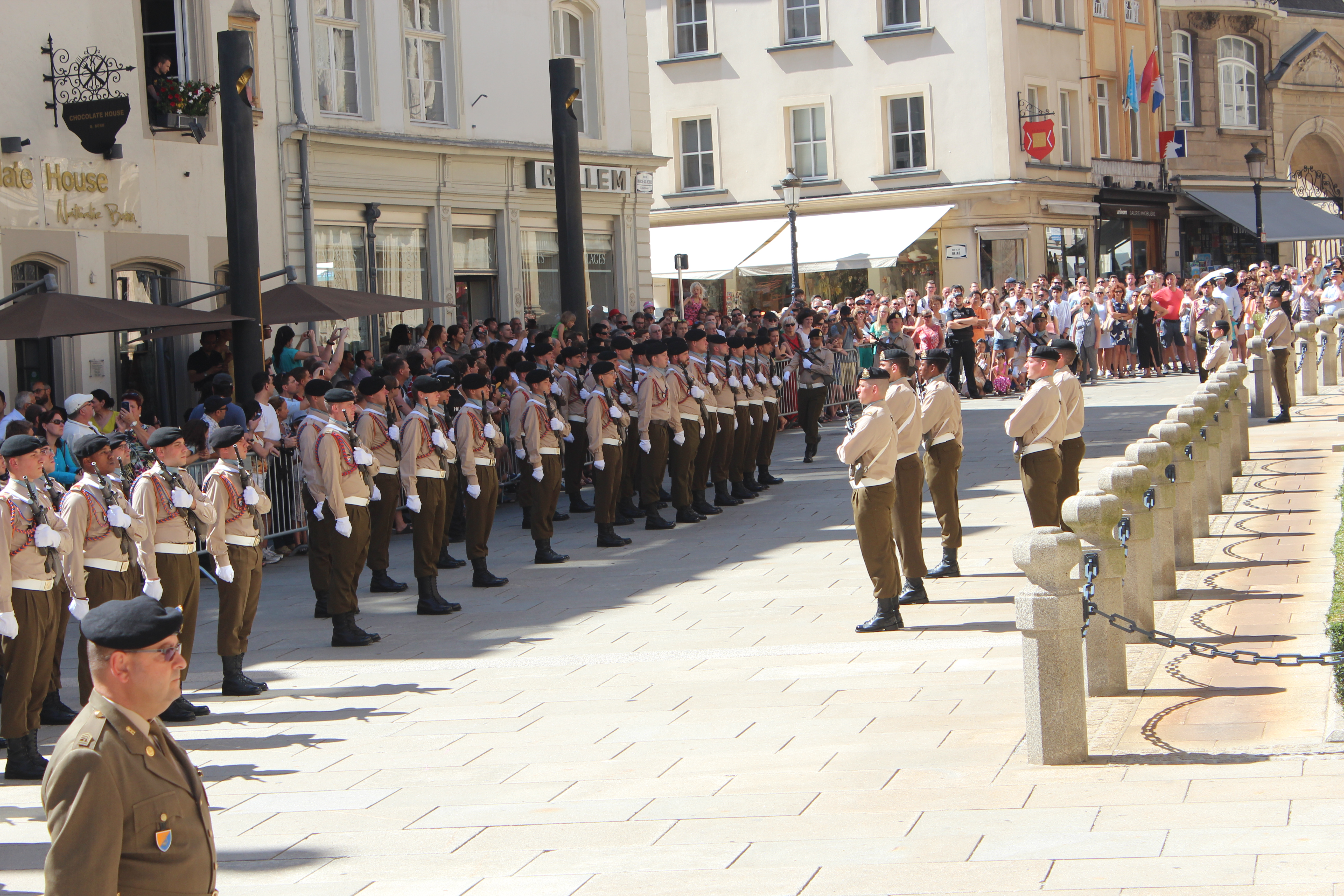 A busload of soldiers from the Luxembourg Army, during a Changing the Guard ceremony